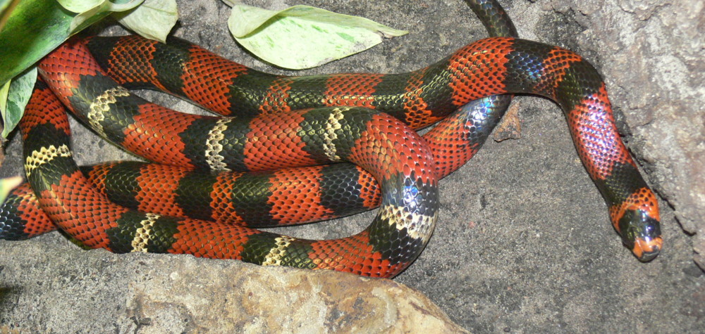 Lampropeltis triangulum taken at the Tierpark Berlin, Germany